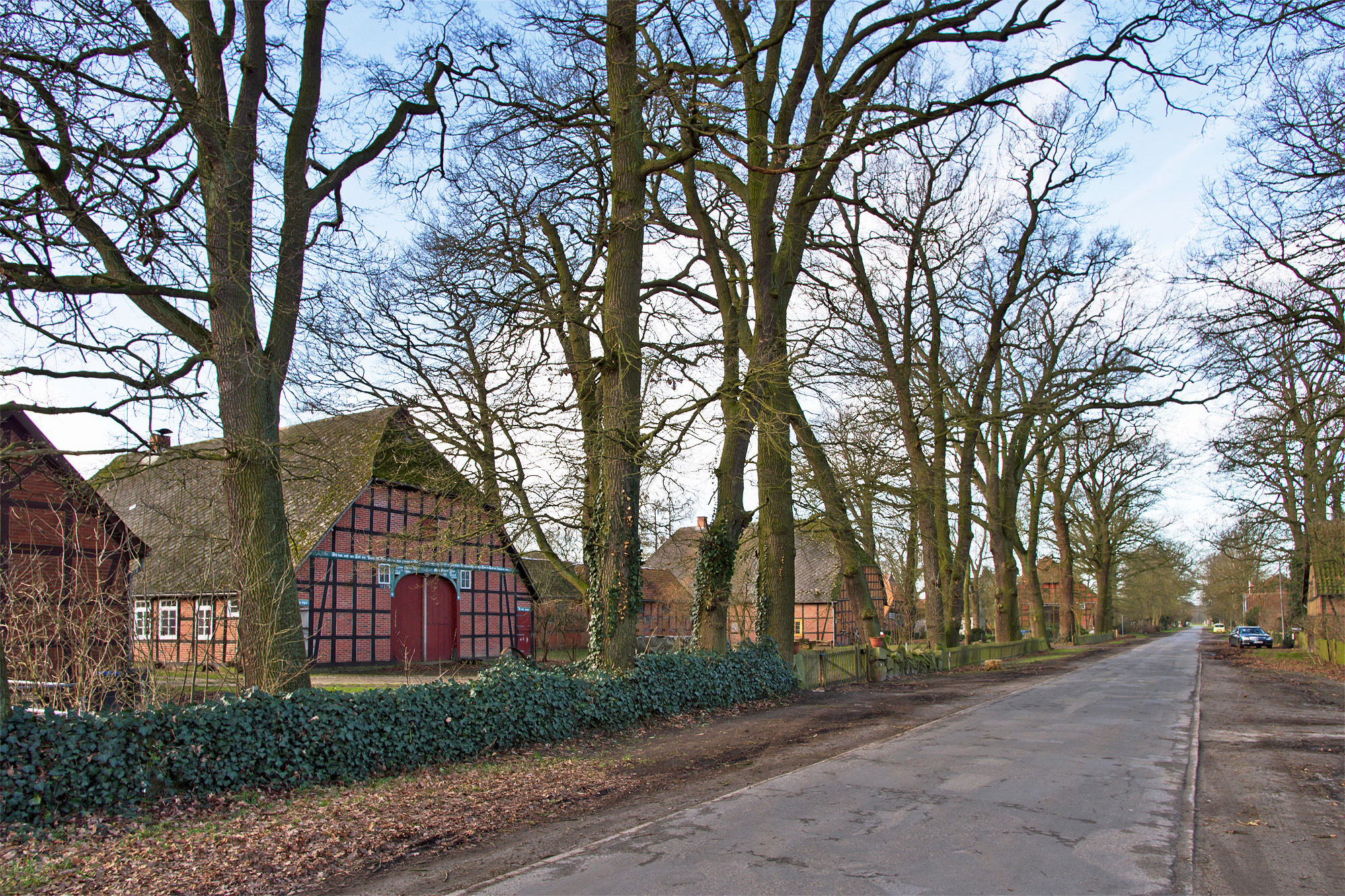 In the village Breese in der Marsch (district Lüchow-Dannenberg, northern Germany).